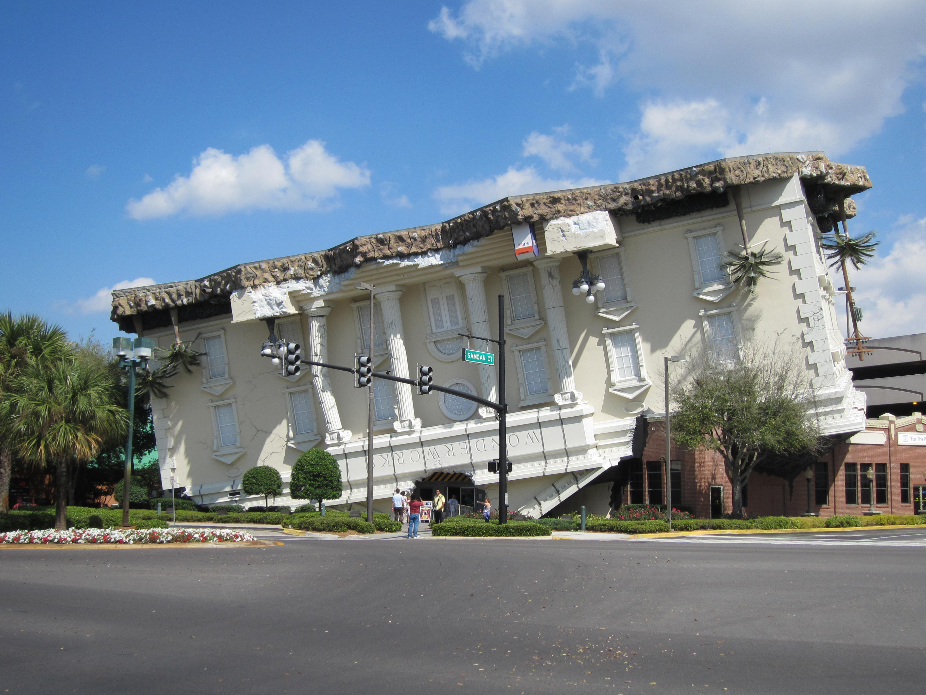 WonderWorks, 9067 International Drive, Orlando, Florida.